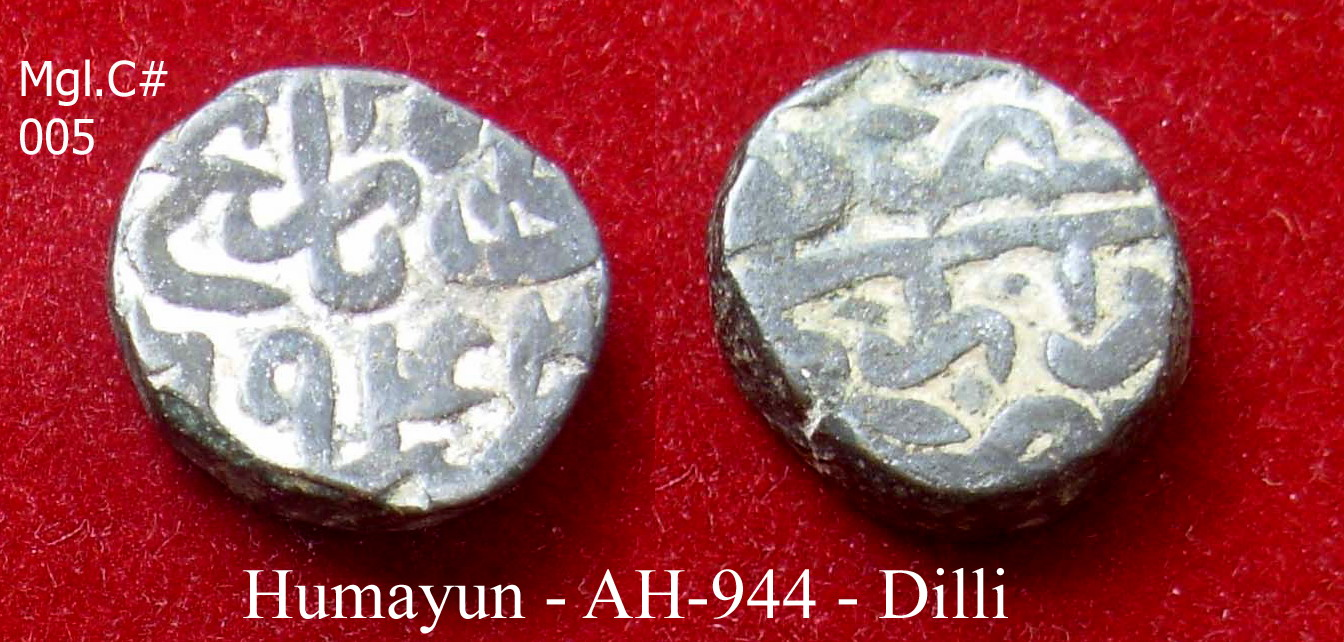 copper coin of Humayun from my cabinet.